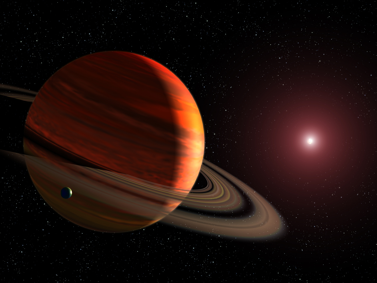 A NASA artist rendering of a hypothetical gas giant extrasolar planet.